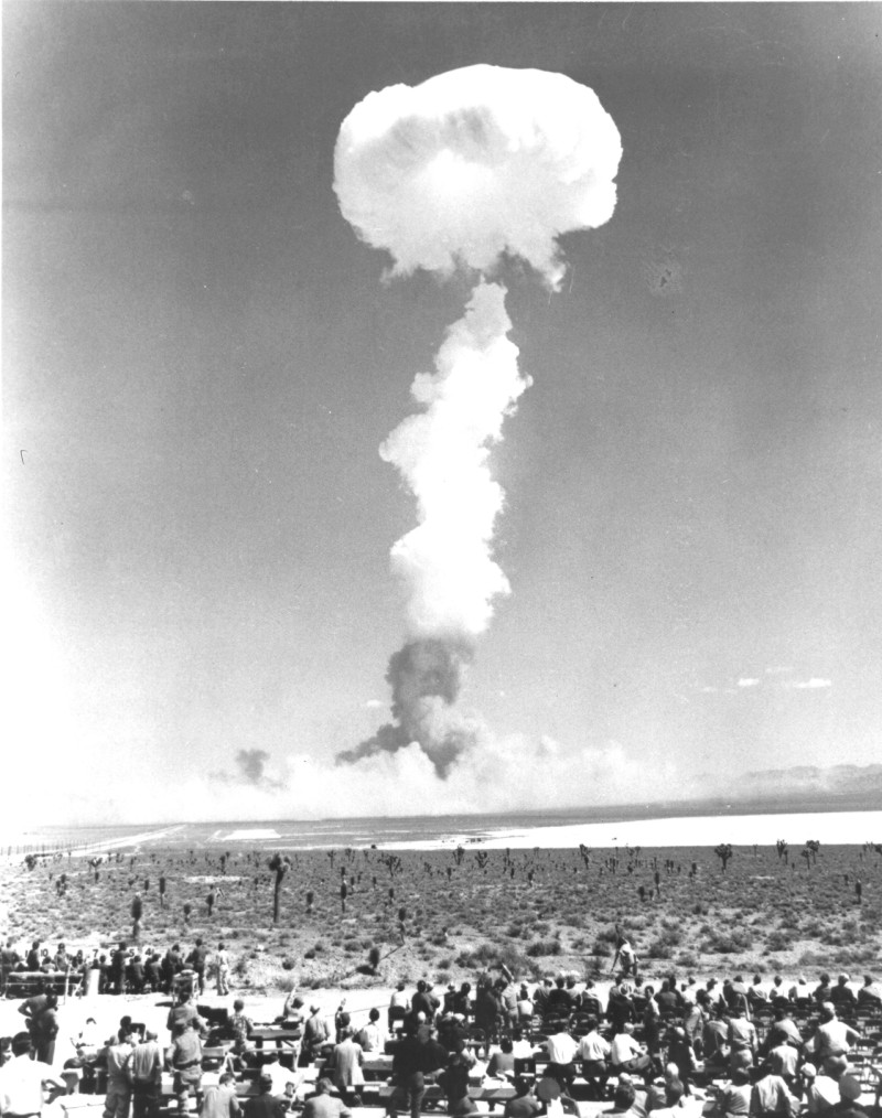 Tumbler-Snapper Operation, CHARLIE EVENT - Atomic Test Site, Yucca Flat, NV, 22 April 1952; mushroom cloud rises over Yucca Flat, as dust cloud begins to form below; observers are shown in the foreground.